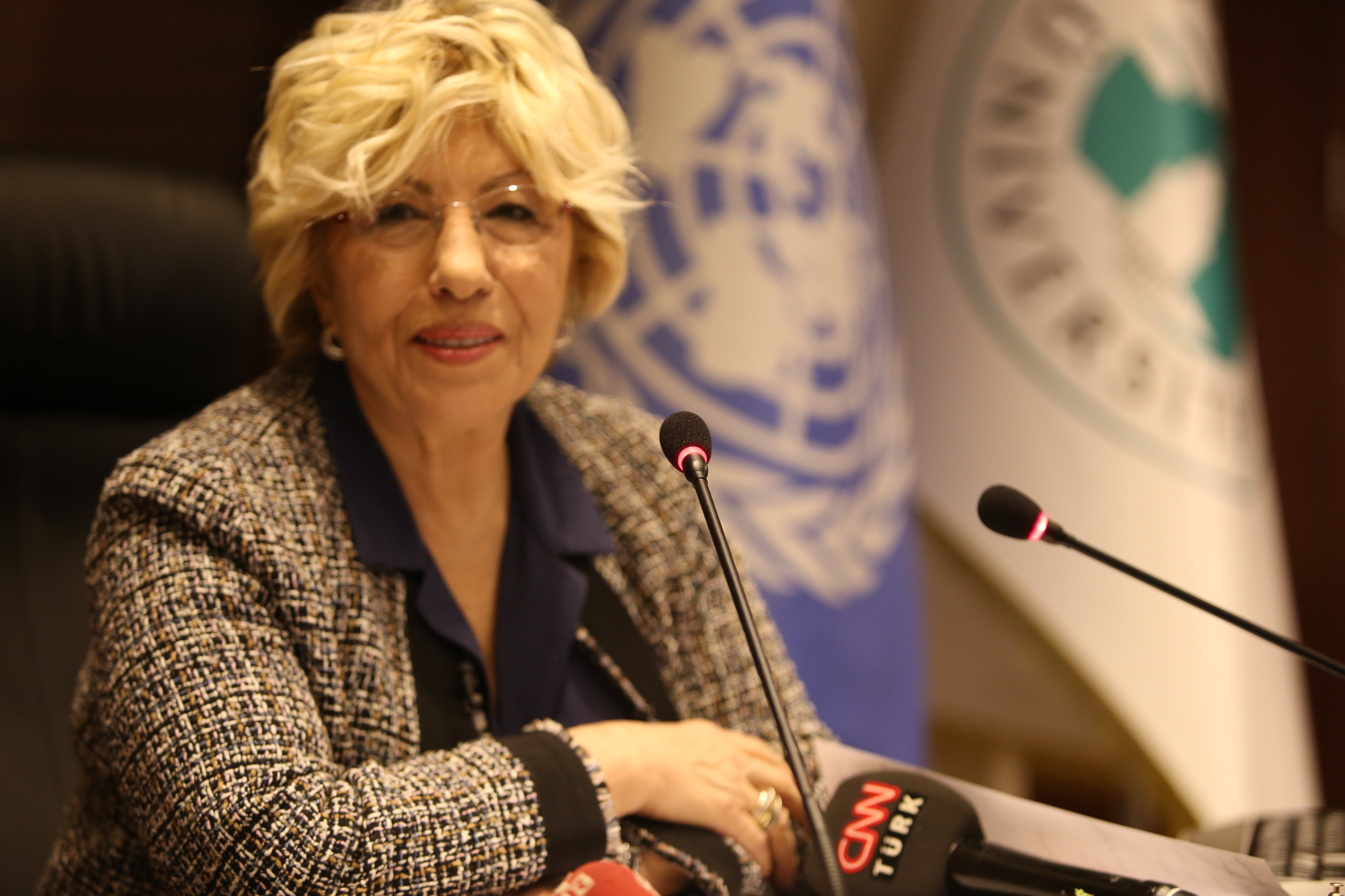 Sevil Atasoy at UN drug report press release.